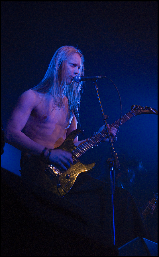 Norther Lead Singer, Petri Lindroos